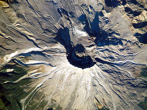 Mount St. Helens from the International Space Station